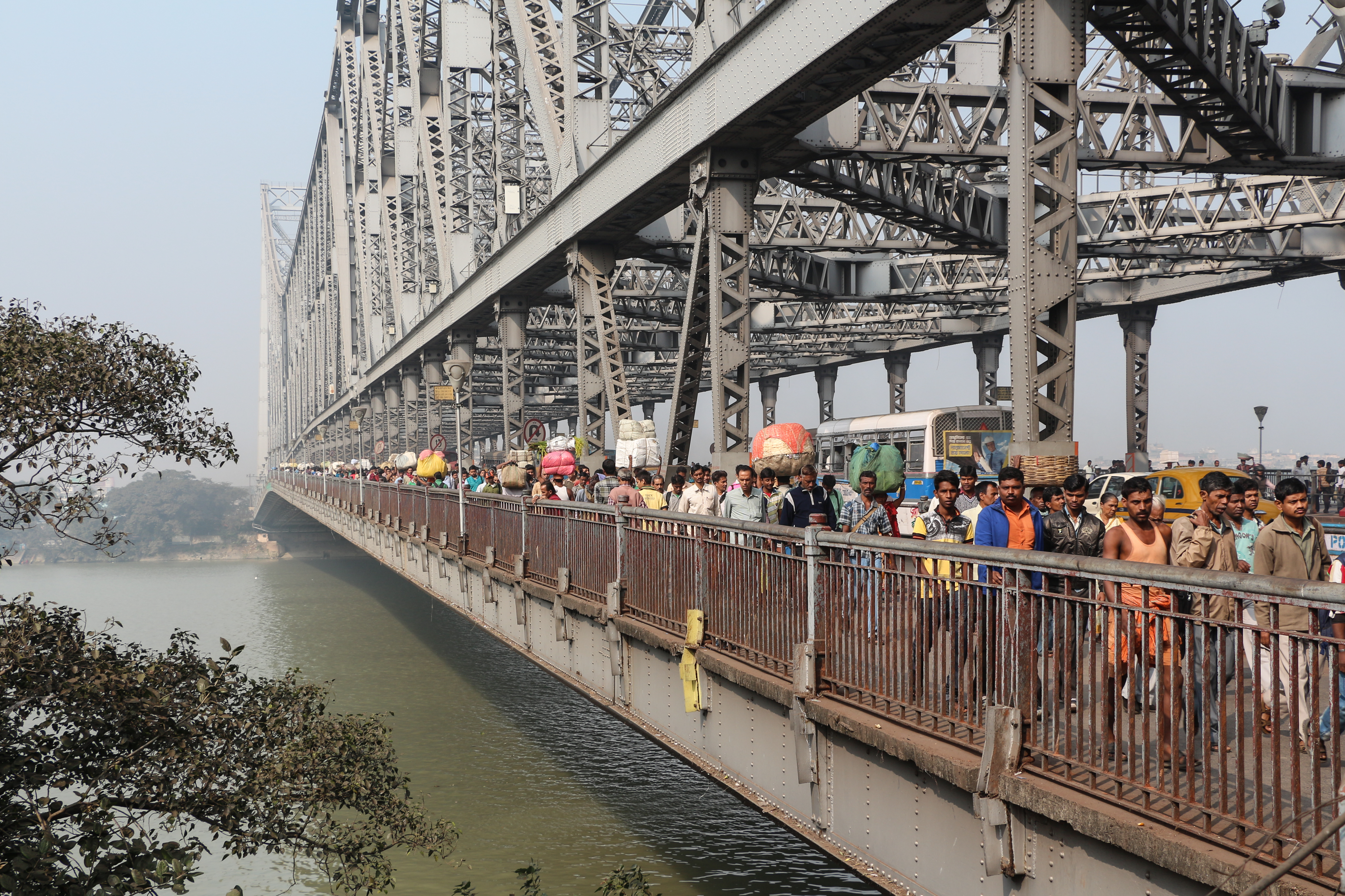 Howrah Bridge on the Hooghly River, Kolkata, India